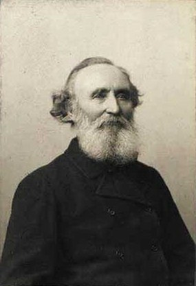 Morten Eskesen (1826-1913), Danish writer and composer